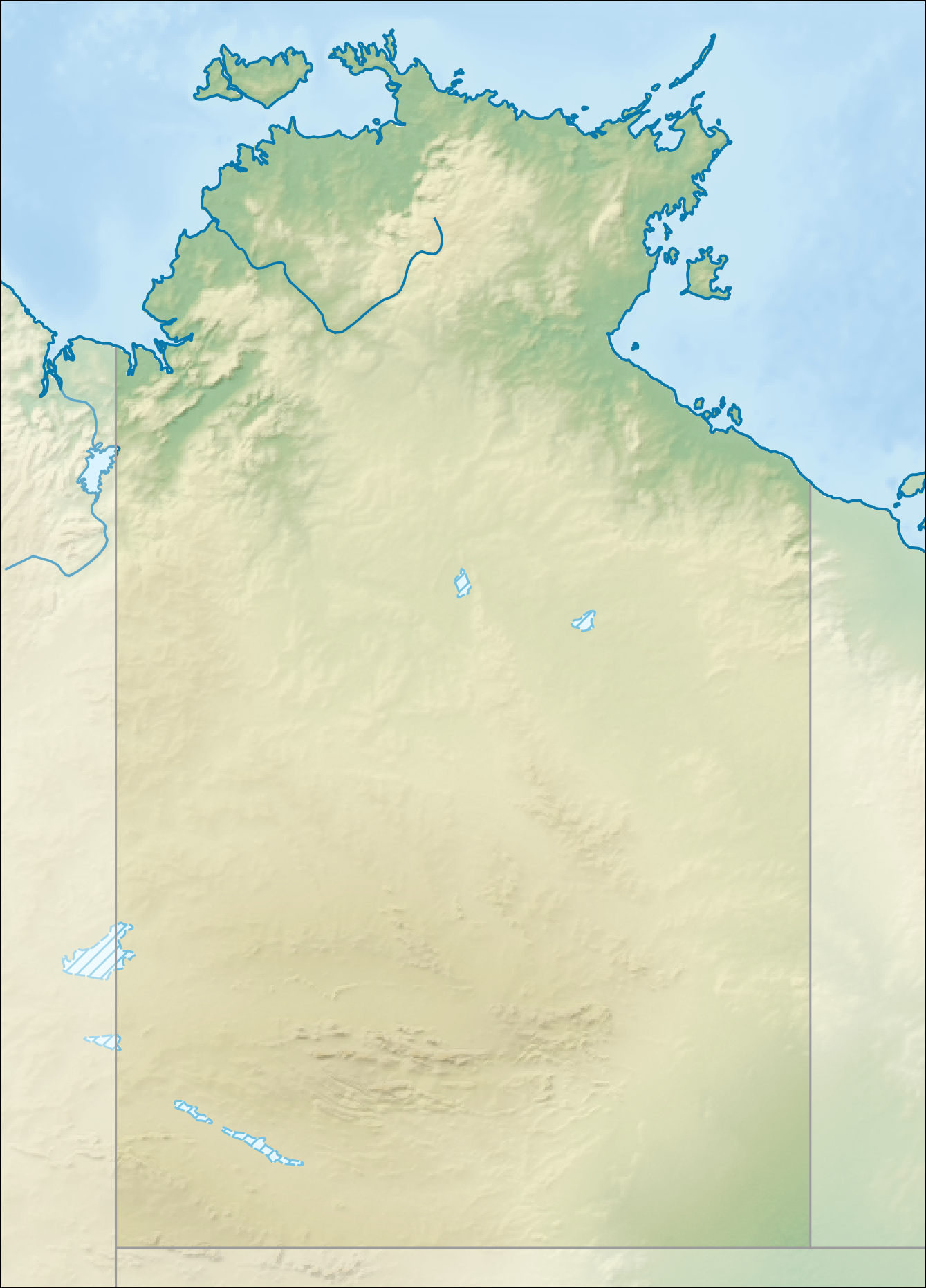 Relief location map of the Northern Territory, Australia Equidistant cylindrical projection, latitude of true scale 17.75° S (equivalent to equirectangular projection with N/S stretching 105 %). Geographic limits of the map: N: 10.6° S S: 26.5° S W: 127.5° E E: 139.5° E